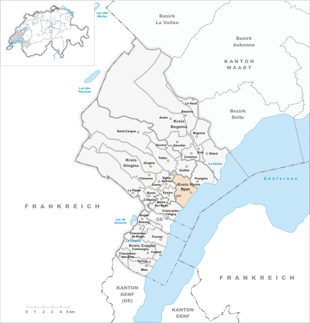 Municipality Nyon